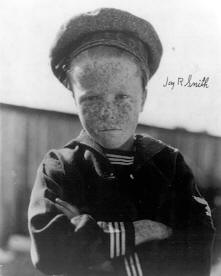 Child actor Jay R. Smith, a former member of the Our Gang troupe. Used to illustrate actor being described.